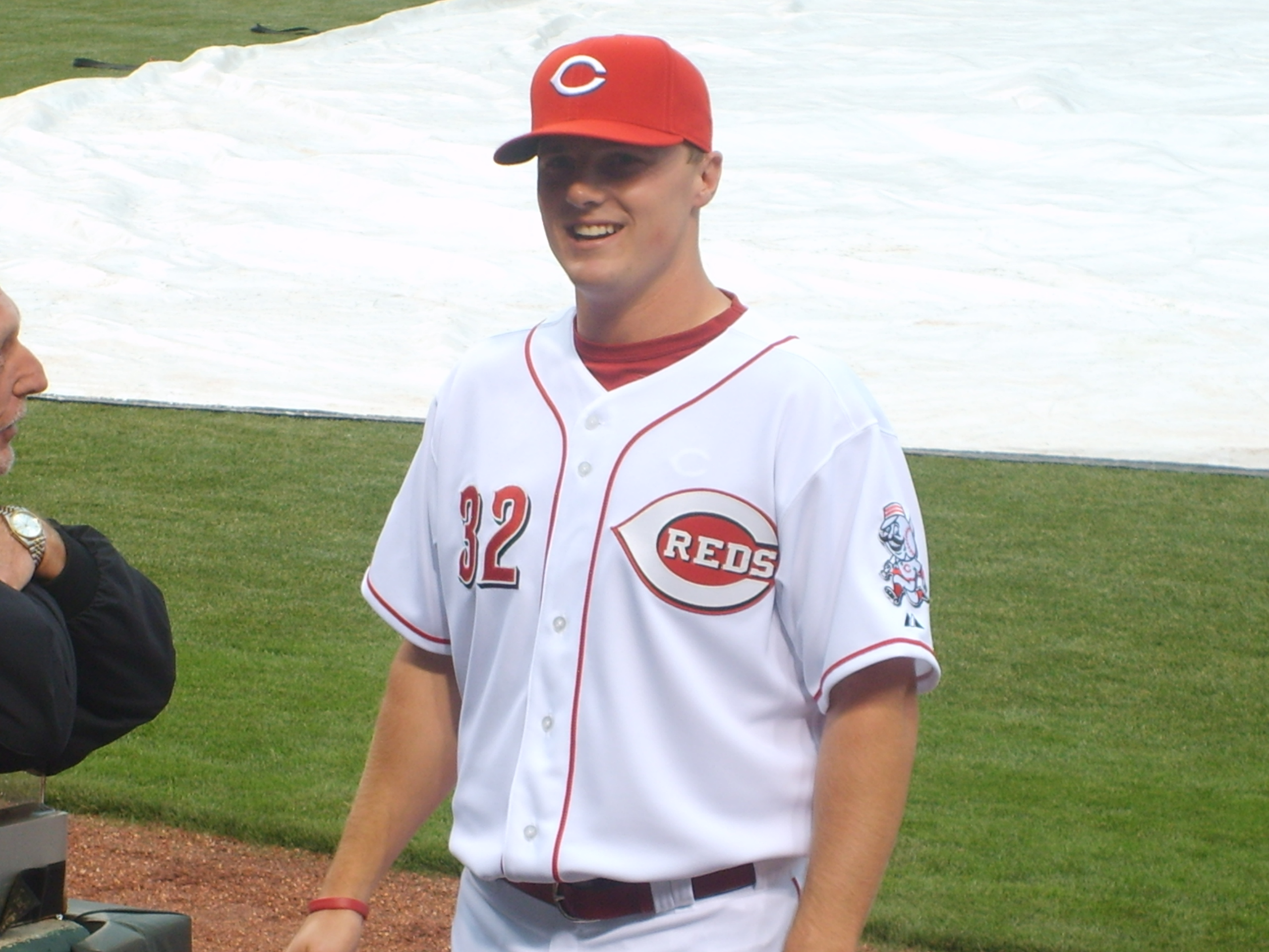 Description Jay Bruce before his MLB Debut in May of 2008 DateMay 27, 2008Source 05:43, 19 January 2009 . . Mevins31 . . 2,560×1,920 (1.13 MB) Jay Bruce before his MLB Debut in May of 2008